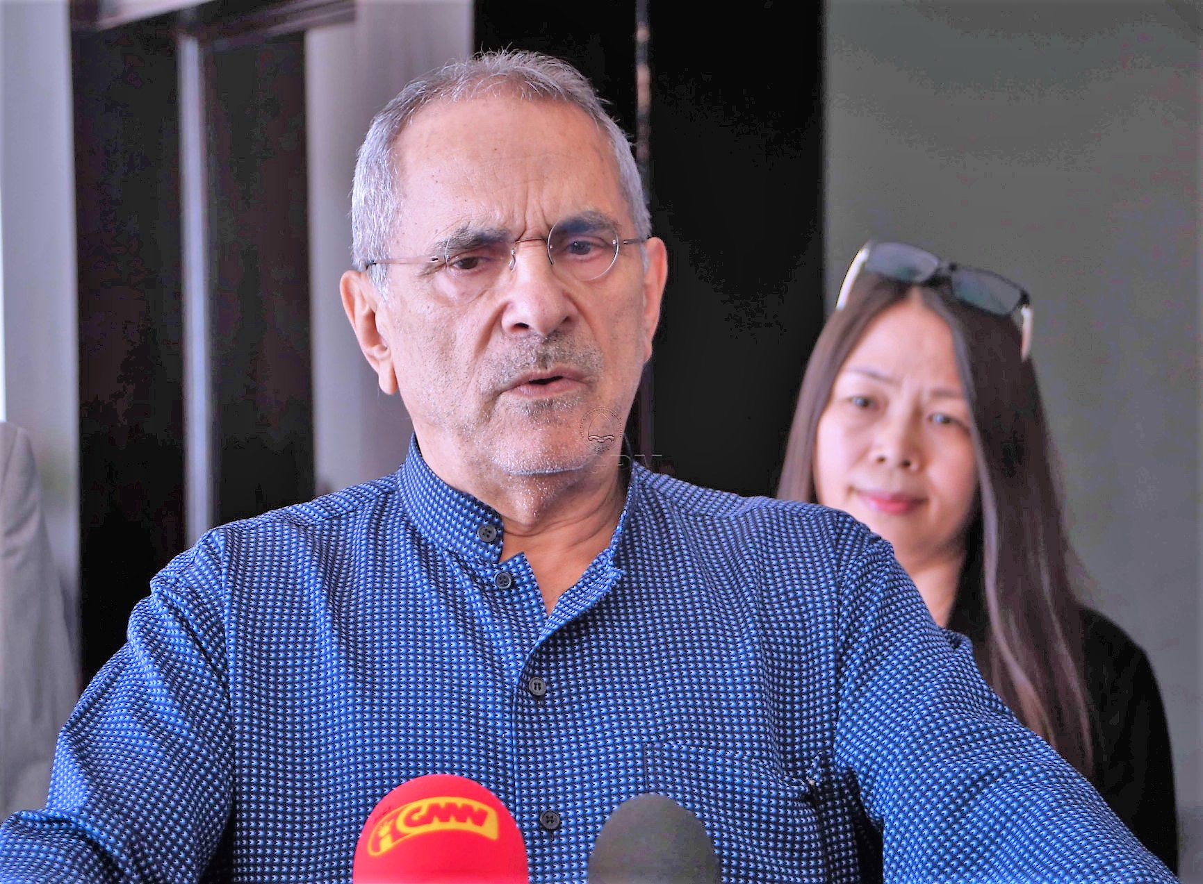 José Ramos-Horta bei einem Fernsehhinterview in Osttimor